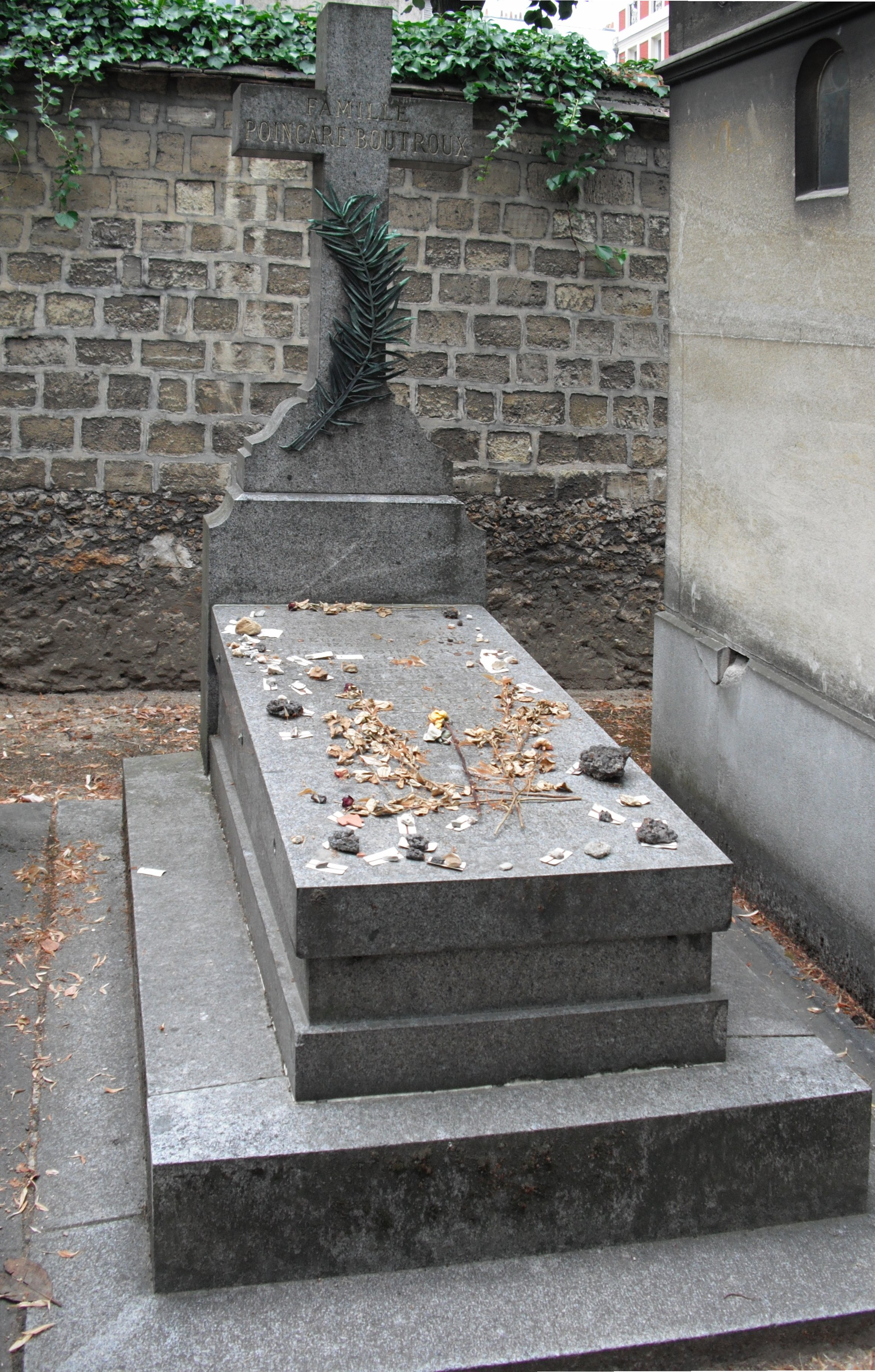 The gravestone of Henri Poincaré at Cimetière du Montparnasse